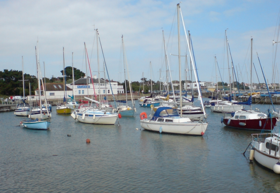 Photo of Hill Head Harbour